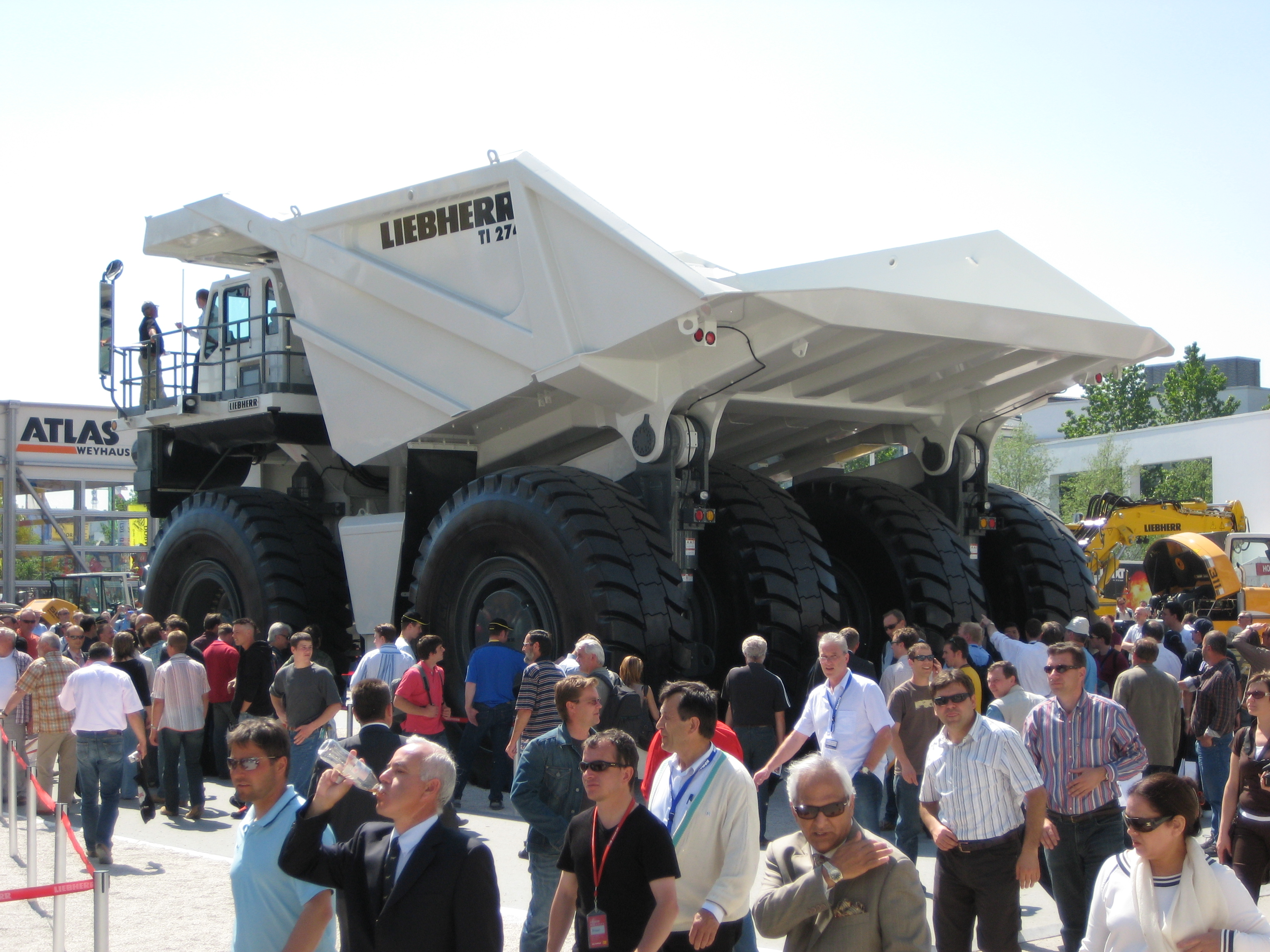 BAUMA 2007, Liebherr TI 274